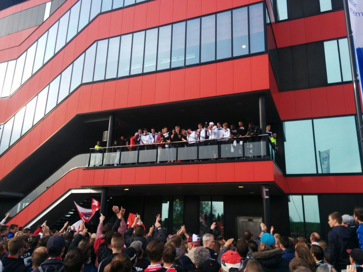 Honouring AZ after qualifying for European football through the 3rd spot in the Eredivisie in 2015.